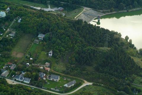 Kincsesbánya, Hungary, aerialphotography